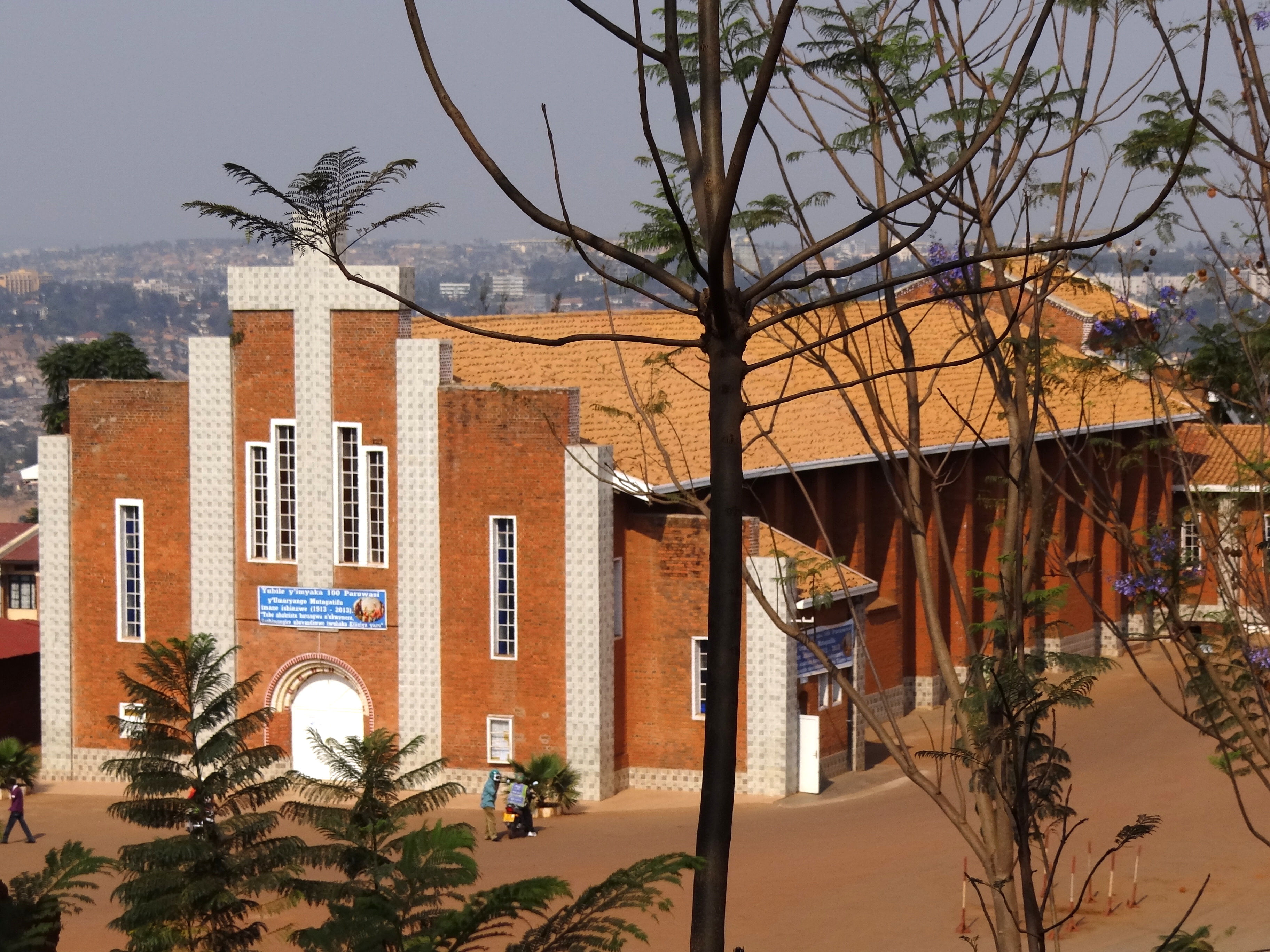 Ste.-Famille Church - Genocide Site - Viewed through Trees - Kigali - Rwanda